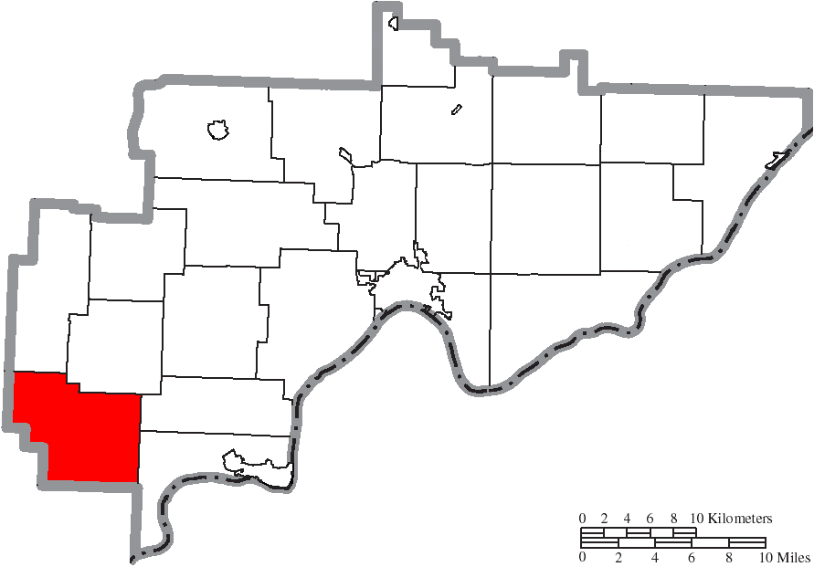 Map of the municipal and township boundaries of Washington County, Ohio, United States, as of the 2000 census, with the location of Decatur Township highlighted. Township borders are shown only in unincorporated areas in order to differentiate incorporated and unincorporated areas more clearly.